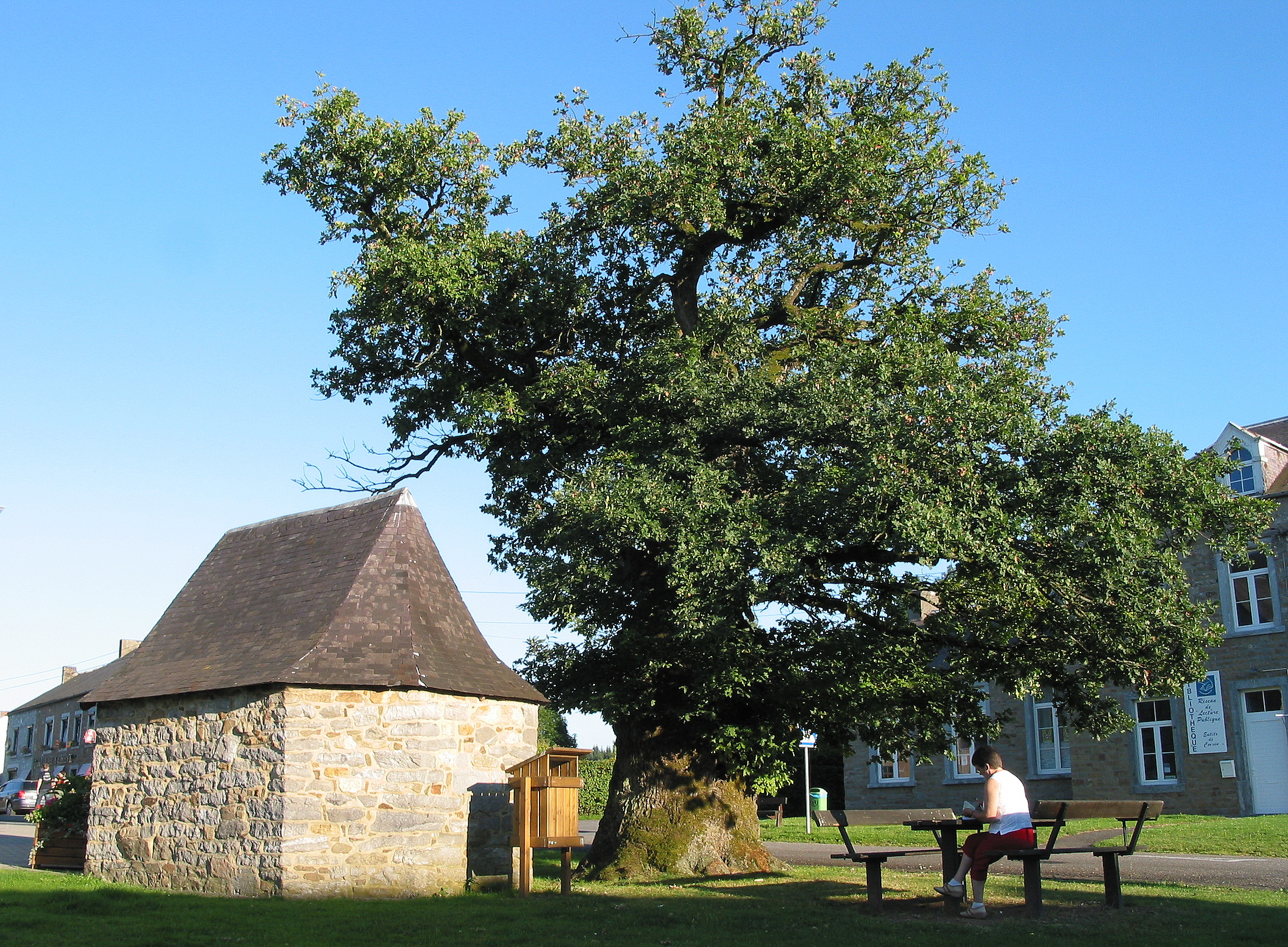 Presgaux (Belgium), the Our Lady of Messina chapel and the old multicentenial oak.